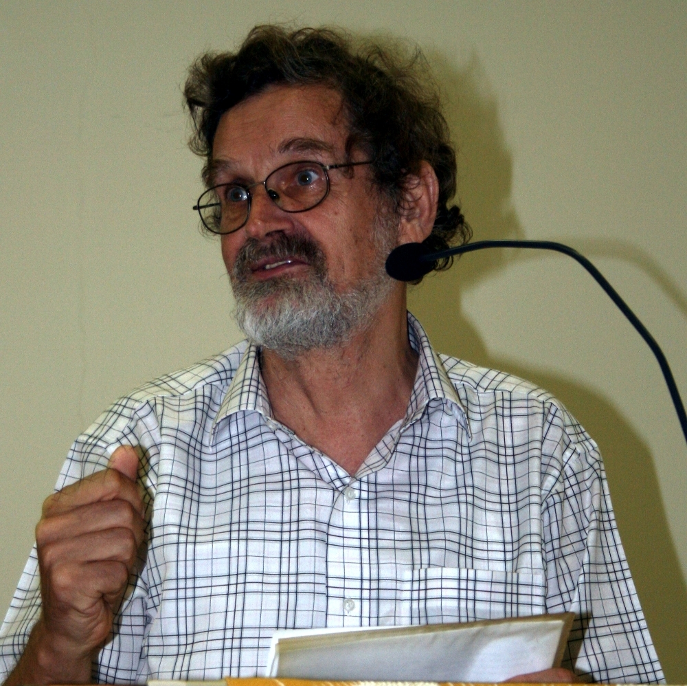 Josip Pečarić, Croatian matematician, member of Croatian Academy of Sciences and ArtsHrvatski: Josip Pečarić, hrvatski matematičar, akademik